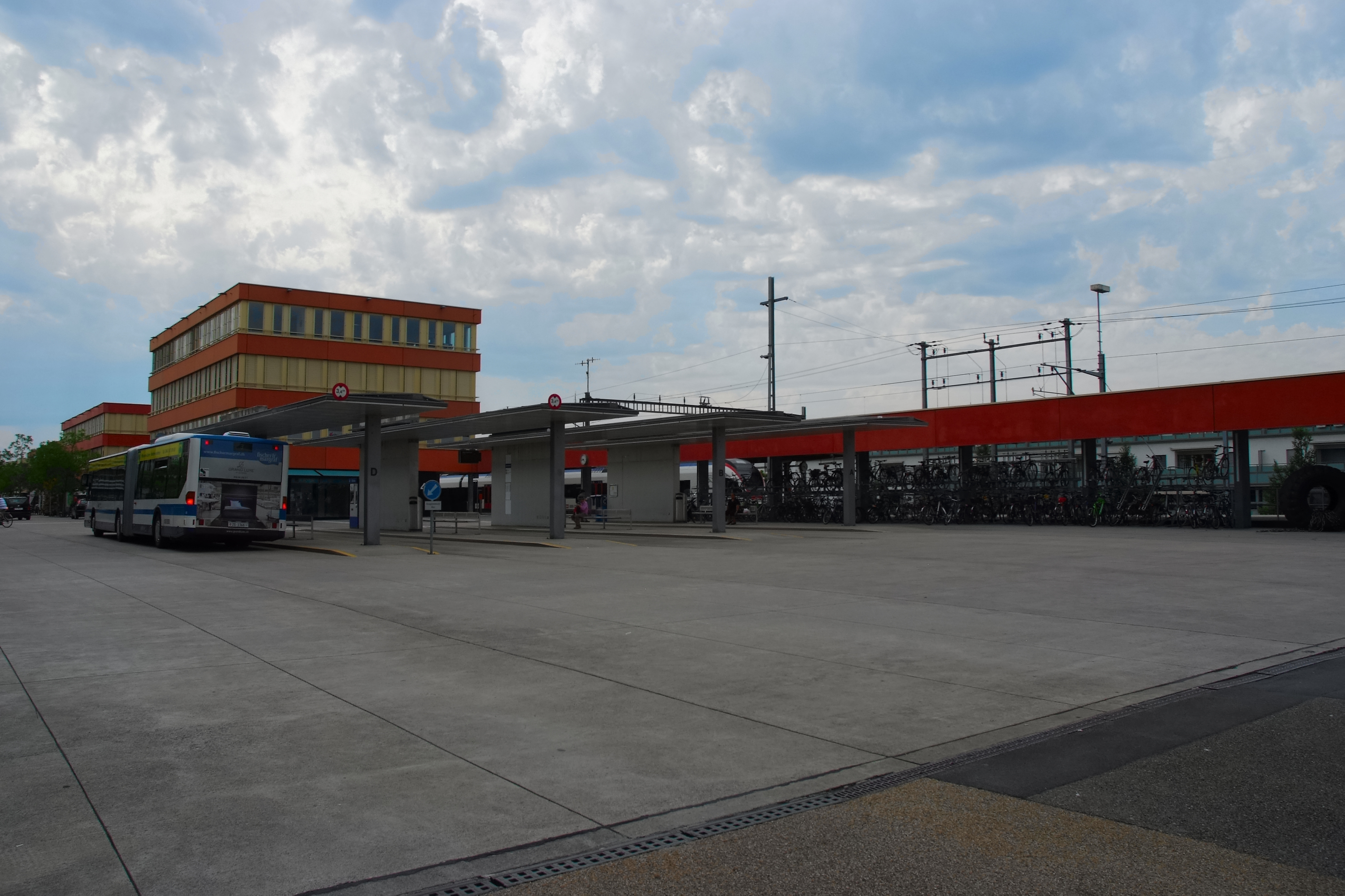 Baar train station, bus station